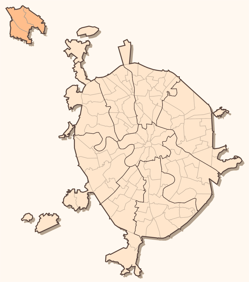 Moscow districts map. ZelAO (2002-2010)